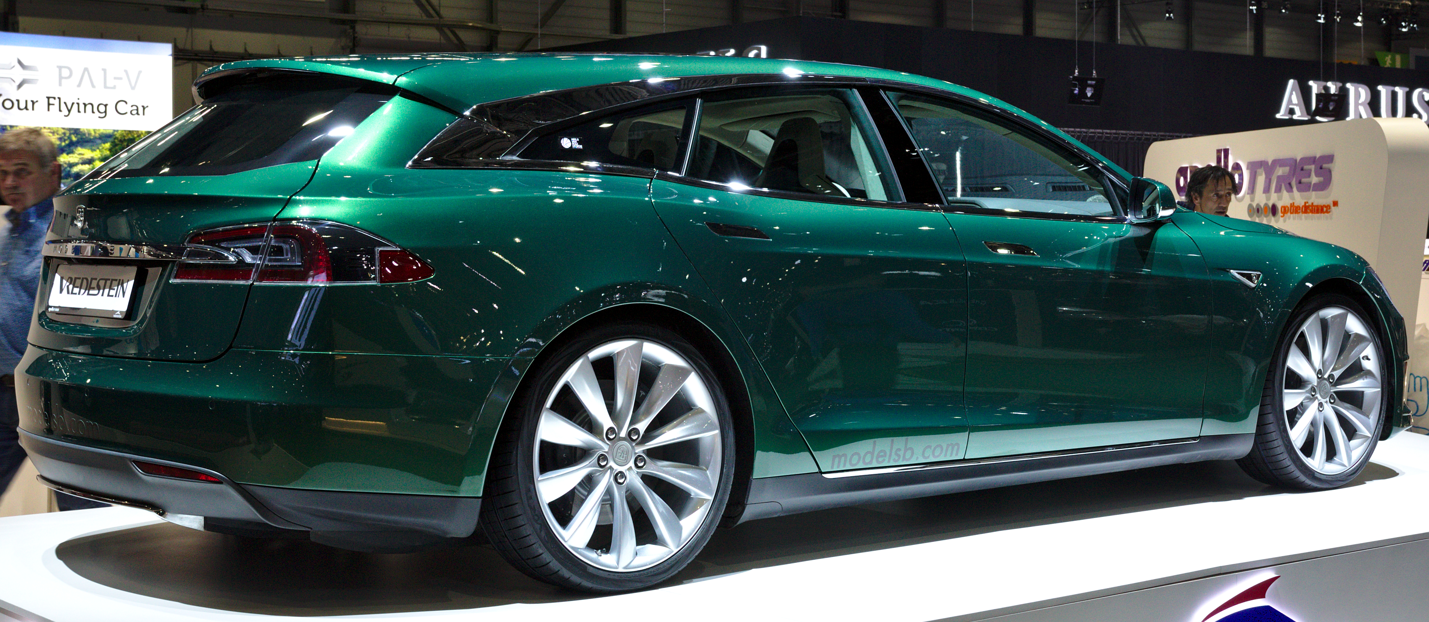 Tesla Model S Shooting Brake at Geneva Motor Show 2019